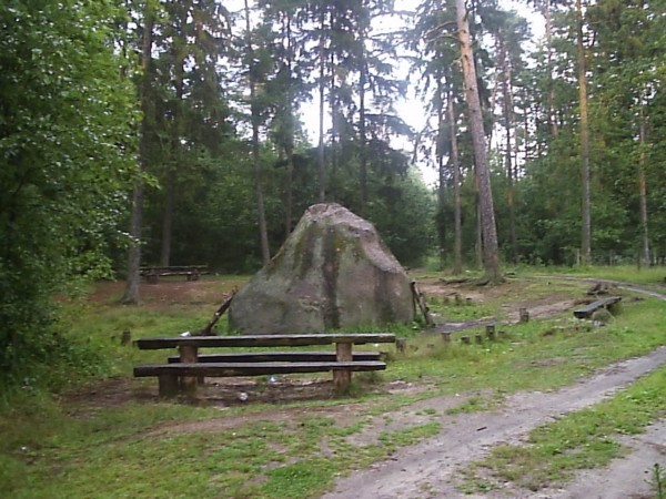 Gołuchów, Poland